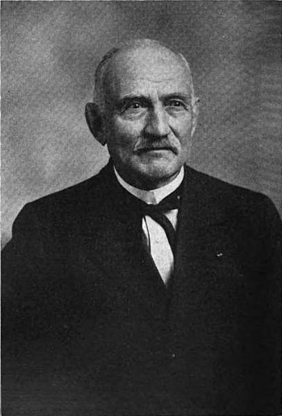 Picture of Othman A. Abbott, first lieutenant governor of the U.S. State of Nebraska (1877-79)